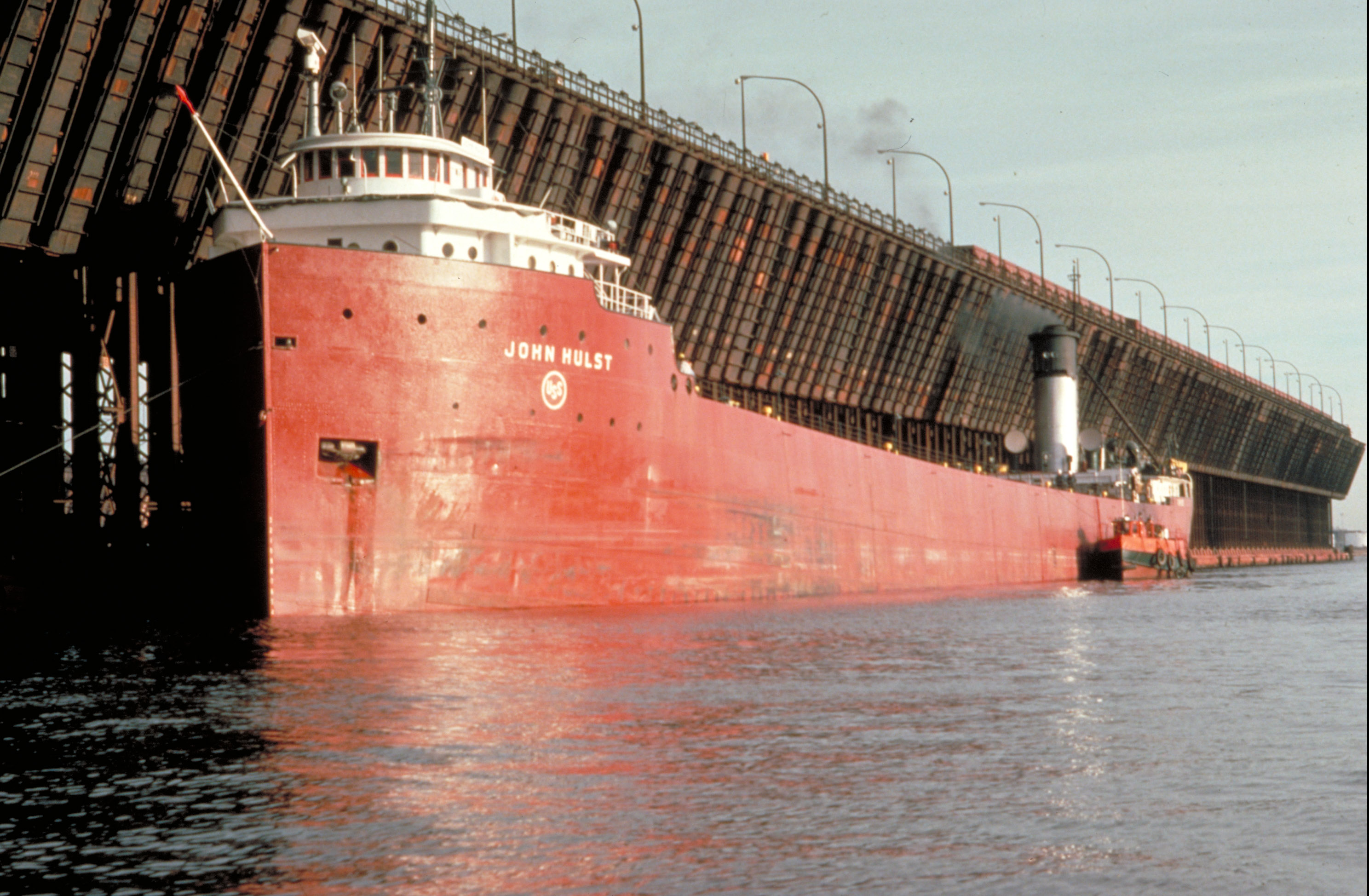 A laker at an ore dock in Duluth Minnesota. This laker is not a self unloader